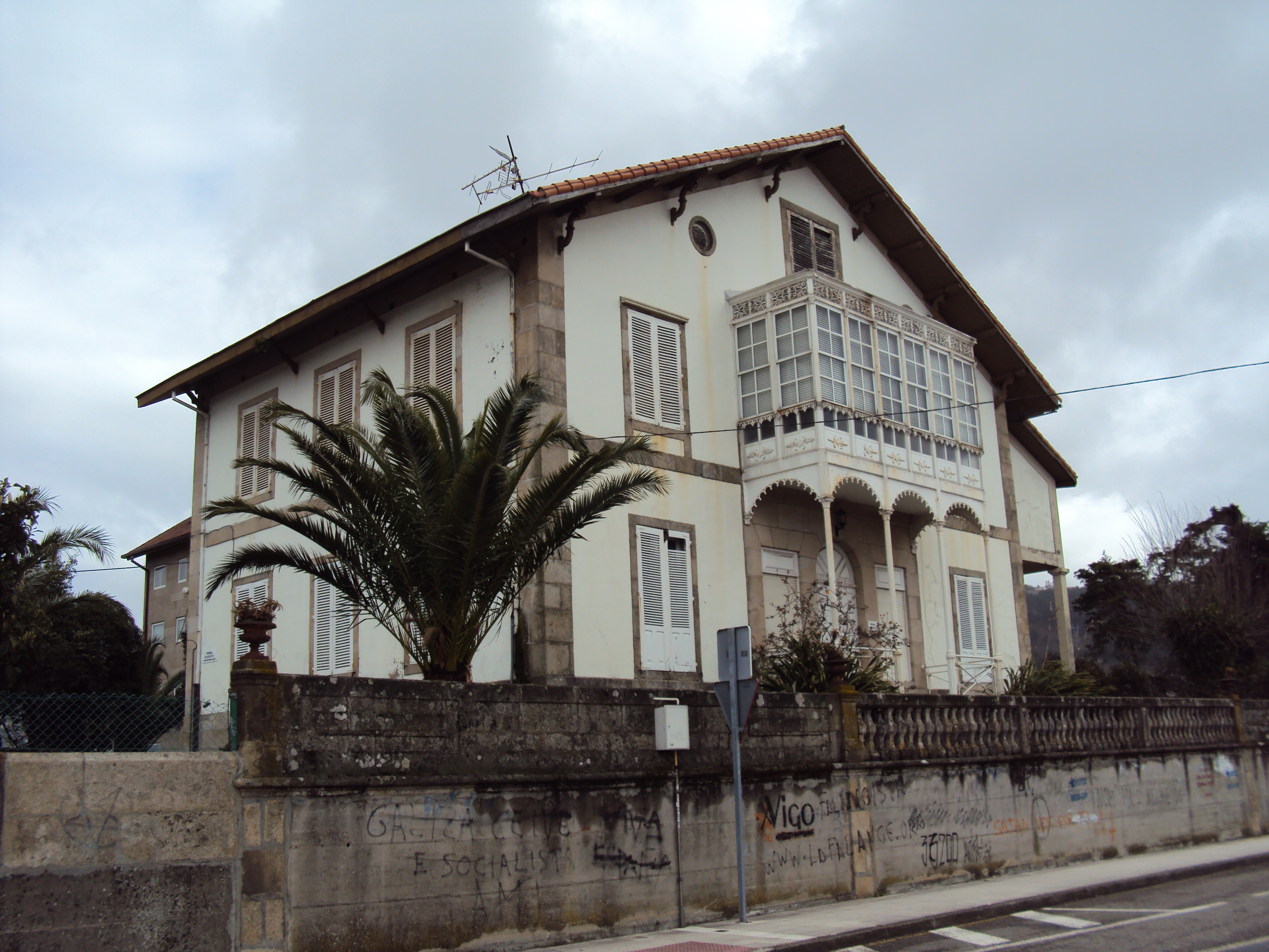 Ecclesiastical court, bishopric, Dr. Corbal street, Teis, Vigo